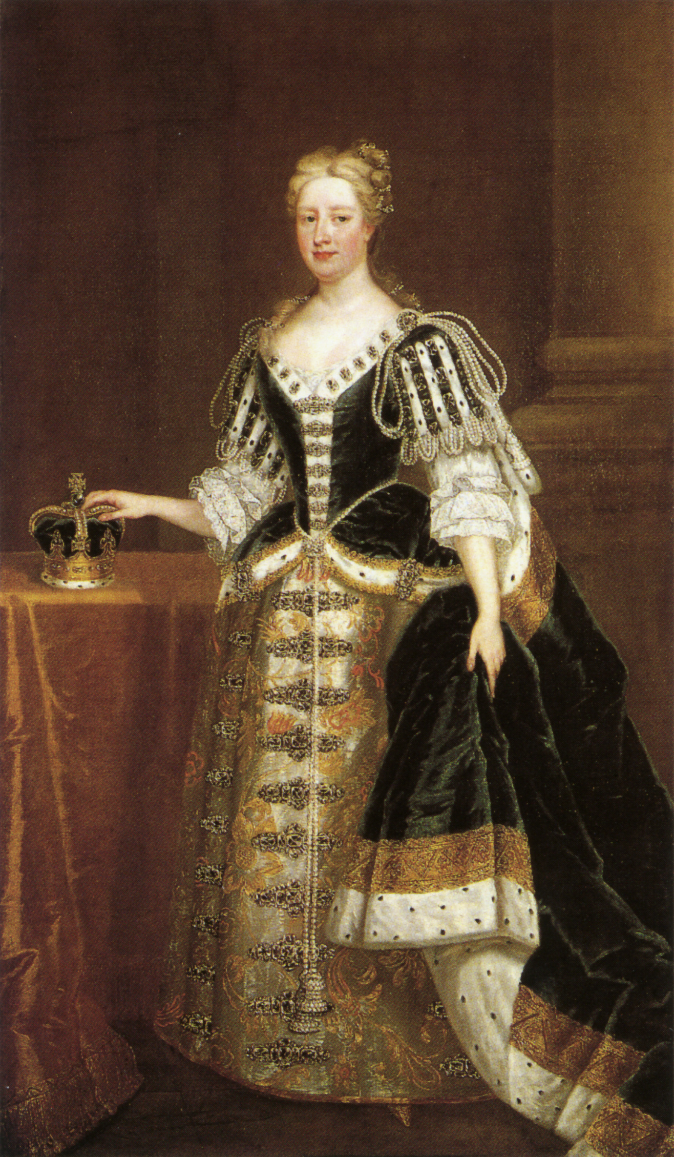 Companion portrait to George II, NPG 368